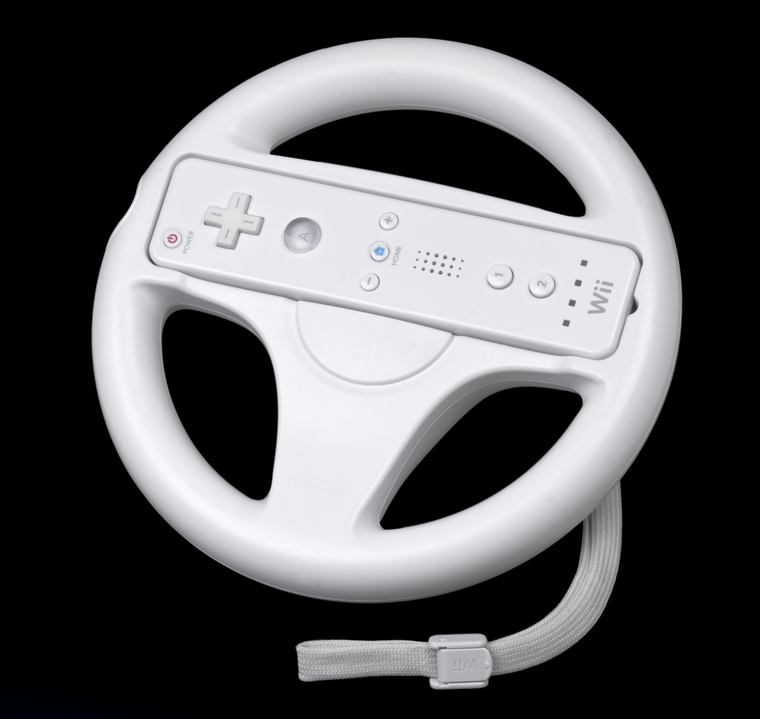 The Wii Wheel for the Nintendo Wii, against a black background because I hate glossy white plastic.